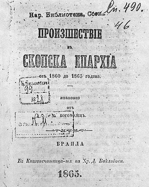 Proizshestcie v Skopska Eparhiya